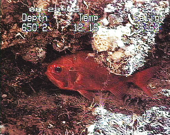 Orange Roughy